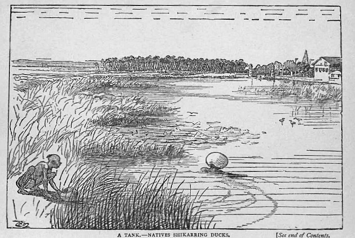 Hunting of ducks illustrated in Eha tribes on my frontier